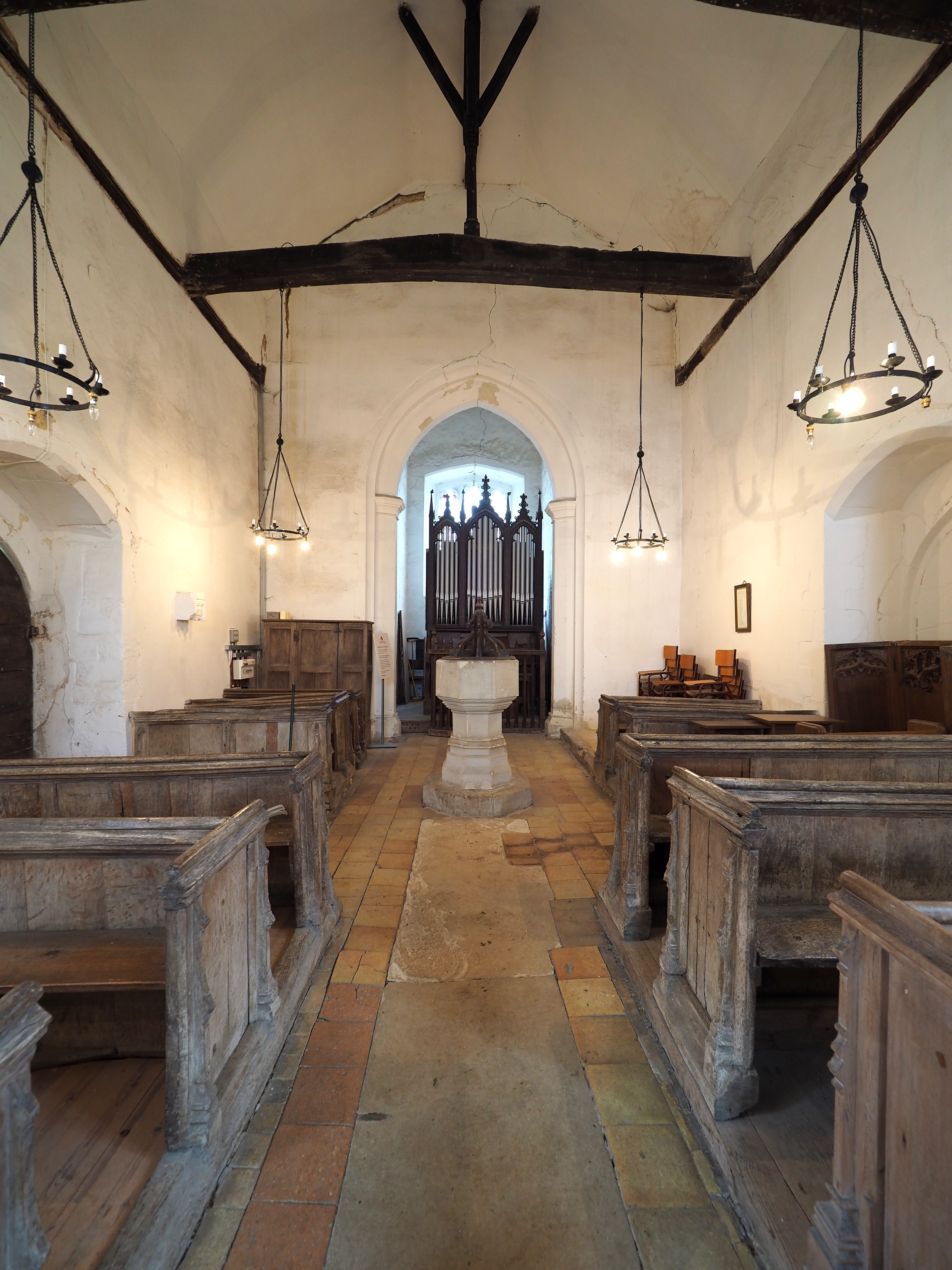 Looking west towards font/organ